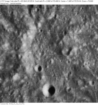 LO-IV-109H Marco Polo is in the center with only the sunlit west rim being clear. At the bottom is 7-km diameter Marco Polo A.